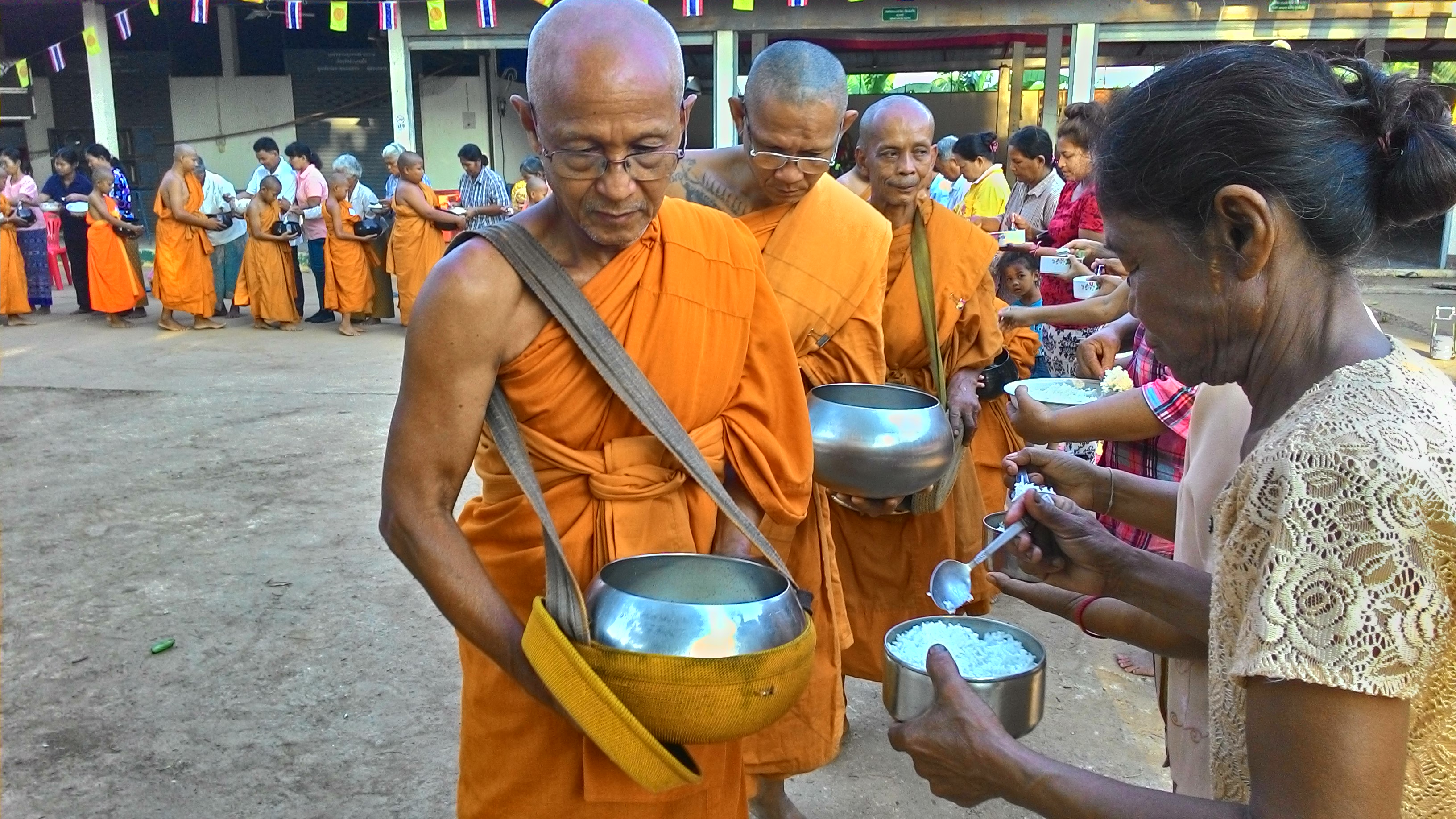 Every morning Buddhist alms bowls at Wat Trai Sirimongkhon,Nong Bun Mak District,Nakhon Ratchasima Province,Thailand.